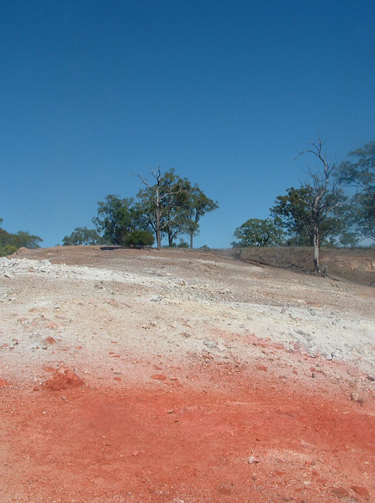 Photograph taken from the observation deck on the summit of Burning Mountain (Wingen, NSW, Australia). 2nd of April, 2006.